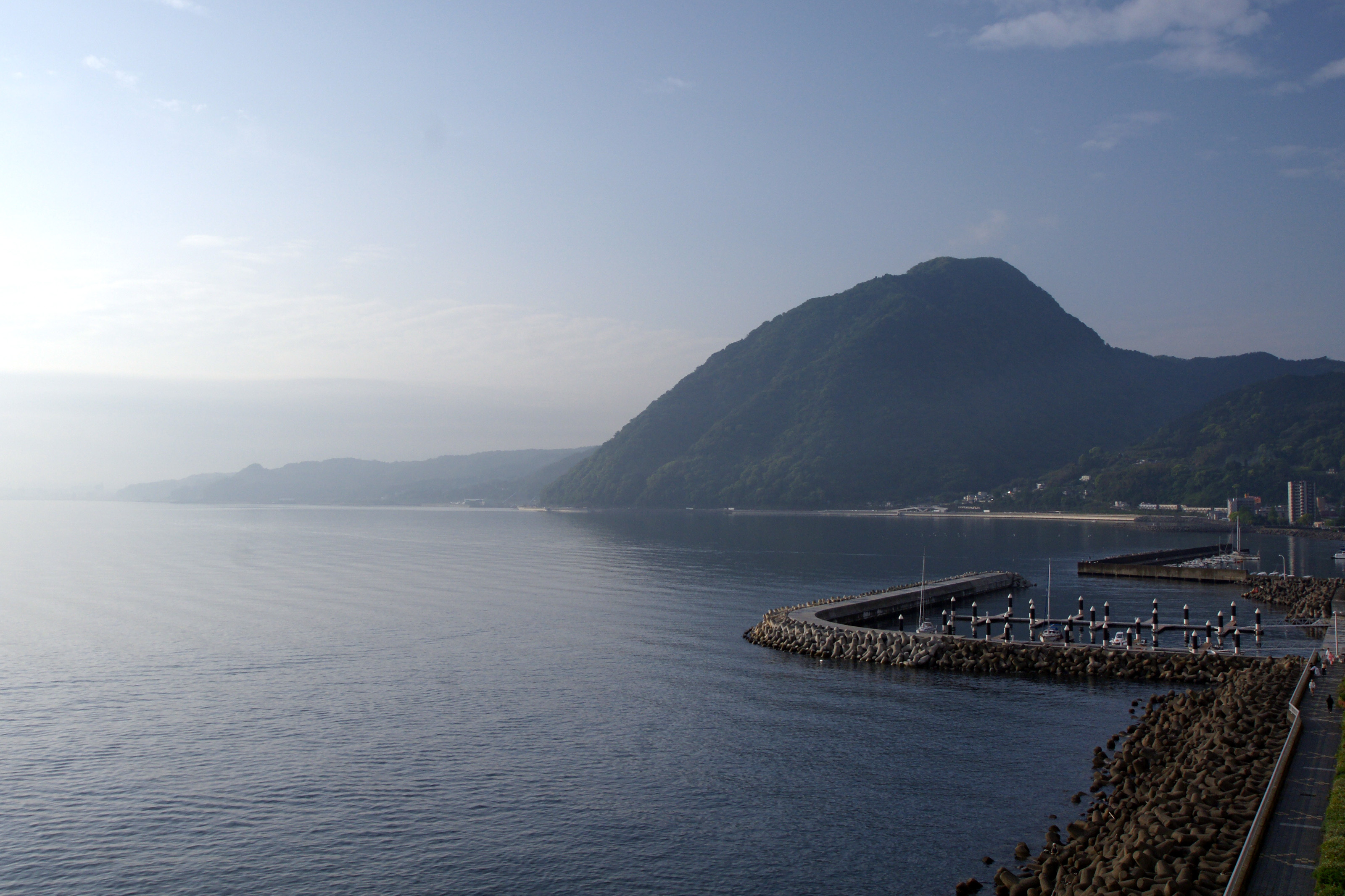 Beppu Bay from Beppu Onsen, Beppu, Oita prefecture, Japan